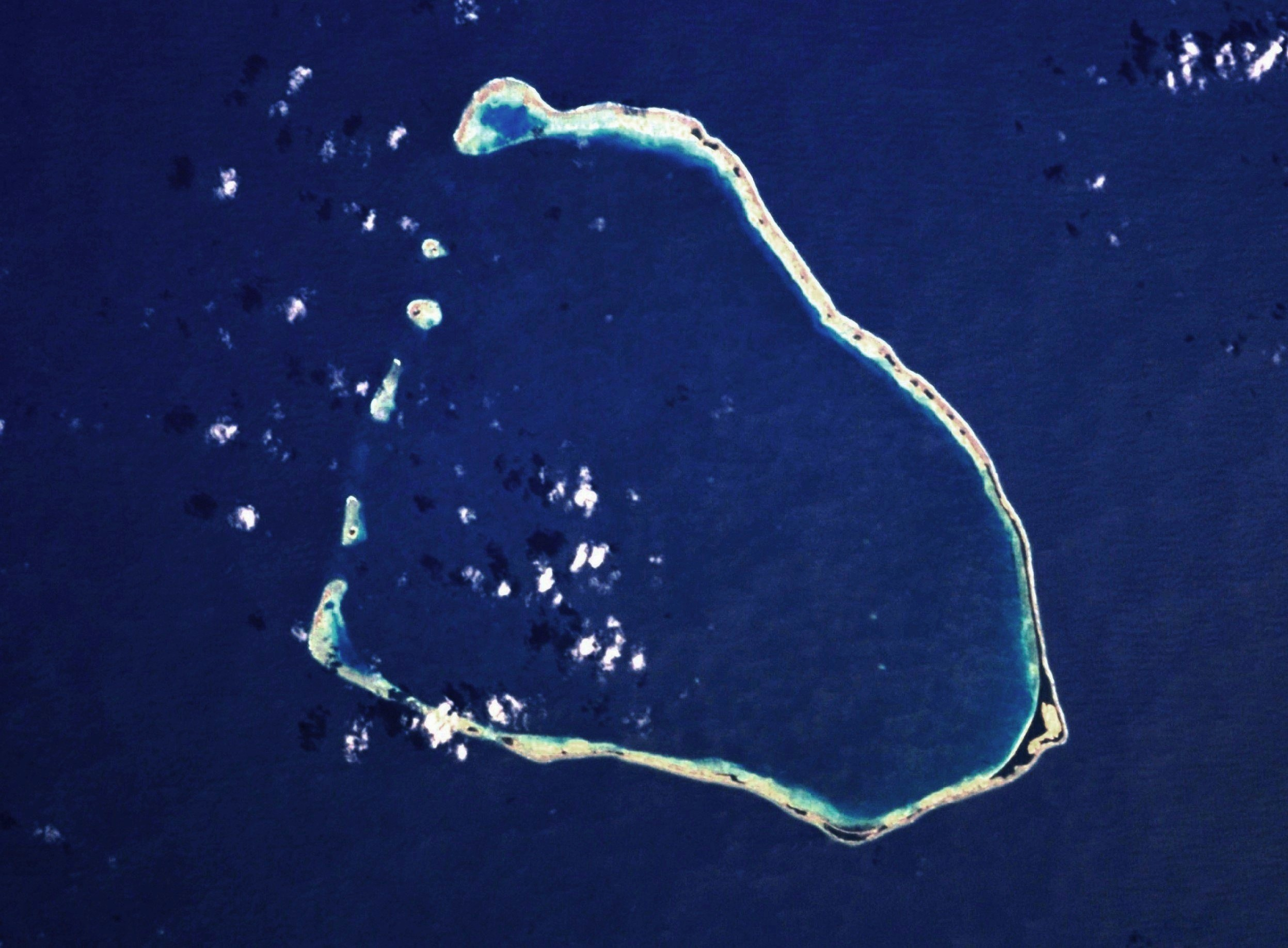 NASA astronaut image of Nukumanu (former Tasman Islands) in the Pacific Ocean cropped and rotated